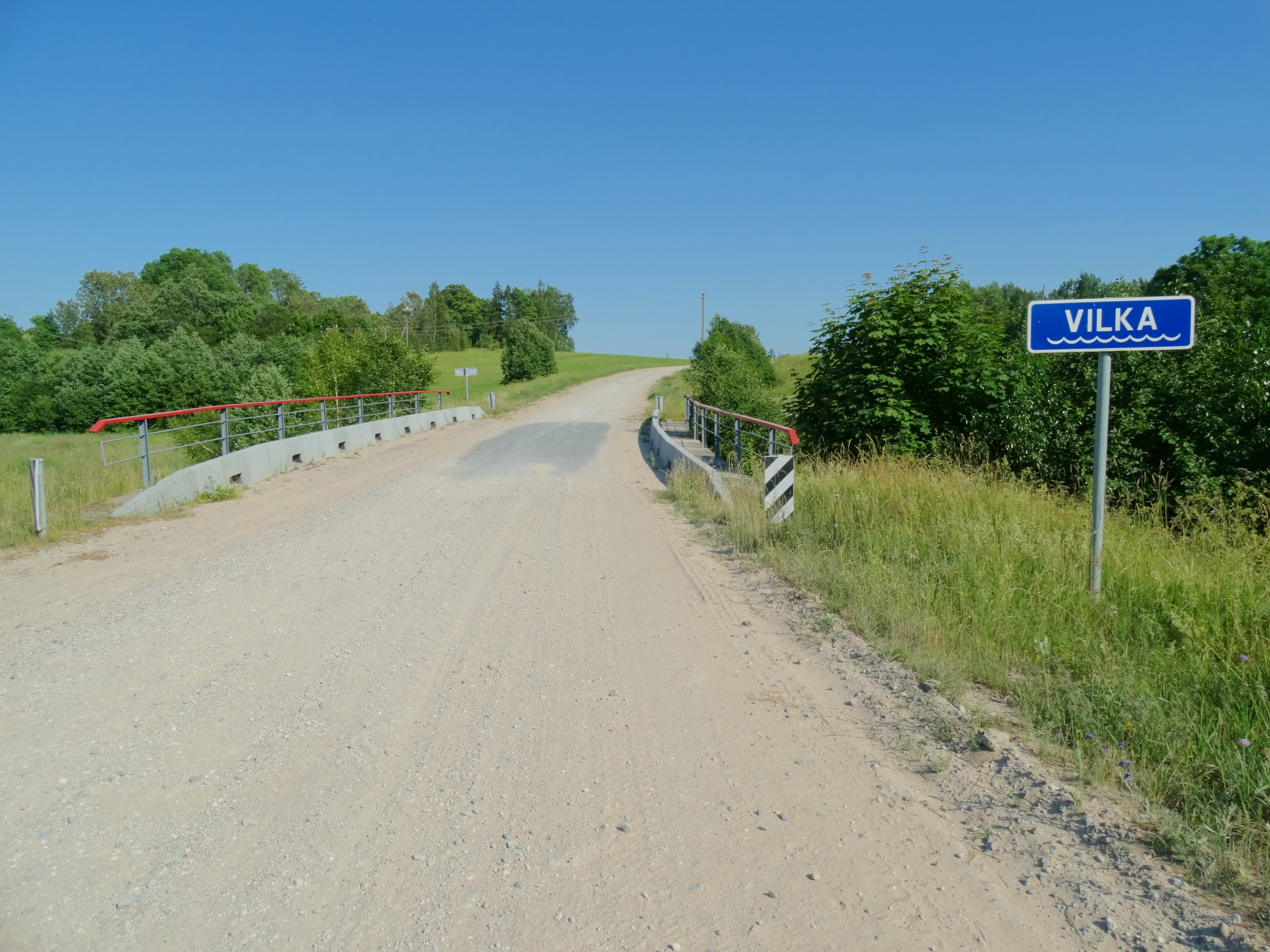 Vilka River, Plungė district, Lithuania